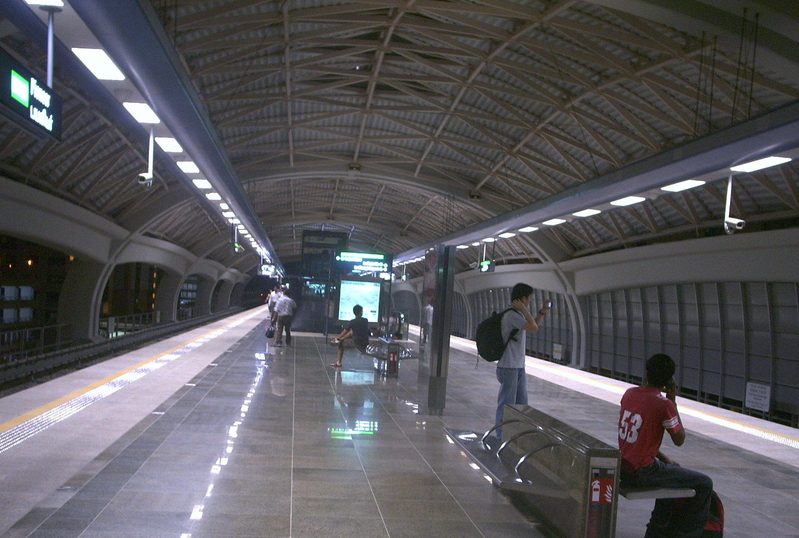 Pioneer MRT station at night.